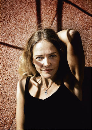 Ann-Sofie Rase